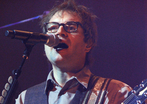 Steven Page performing with Barenaked Ladies at Massey Hall in Toronto, Ontario Canada on December 7, 2008.